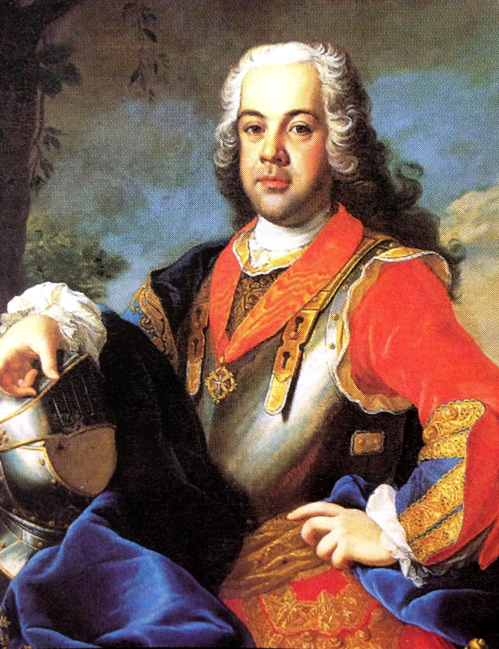 Portrait of Infante Francisco, Duke of Beja (son of King Pedro II of Portugal).